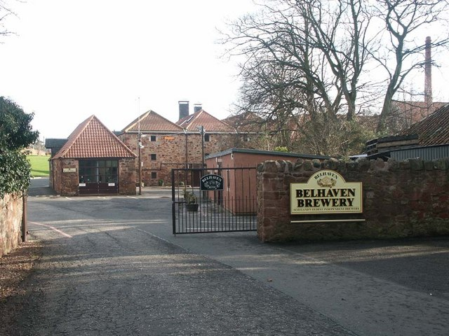 Belhaven Brewery. The entrance to one of the great Scottish breweries. Belhaven was demerged from a larger group back in early 1990's, as I remember under the brand-master hand of Raymond Miguel, and which went on to become City Centre Restaurants plc (now called The Restaurant Group) which used to include well known names such as Est Est Est, Garfunkels, The Filling Station, Cafe Uno, Wok Wok, Chiquitos, Frankie and Benny's even the little chrome caravan niche called "OK Diner". It would seem that some of these are no longer part of their portfolio. ( Nevertheless it would seem that 15ish years down the line that both companies are doing very well. Over the years I had a little flutter in the equity of both businesses. More on the history of Belhaven Brewery here: (and what colourful history)